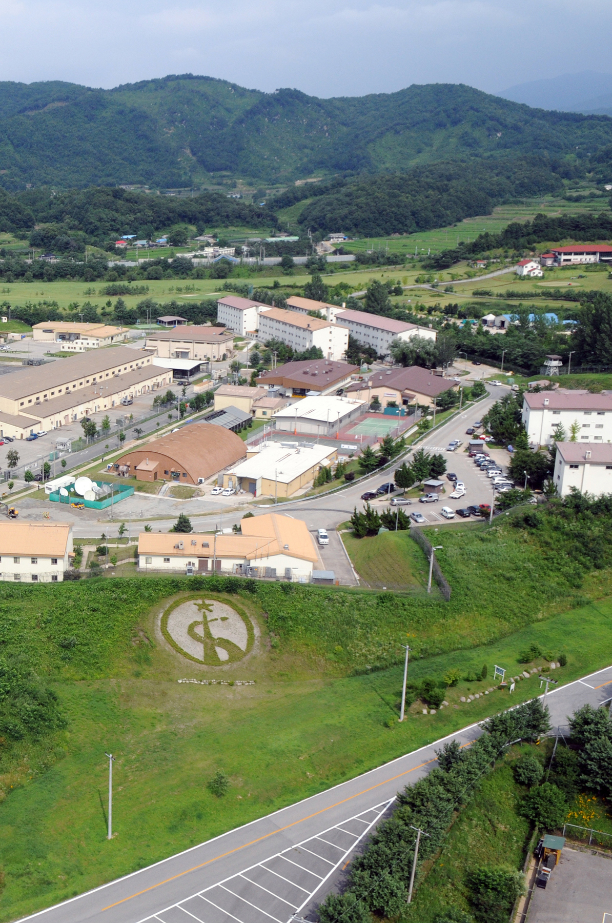 Eighth U.S. Army has announced plans to close Camps Eagle (above) and Long in Wonju, South Korea.